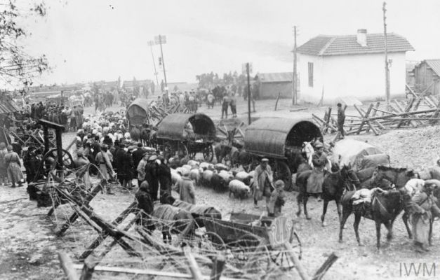 German and Bulgarian Troops near Casino Boardwalk